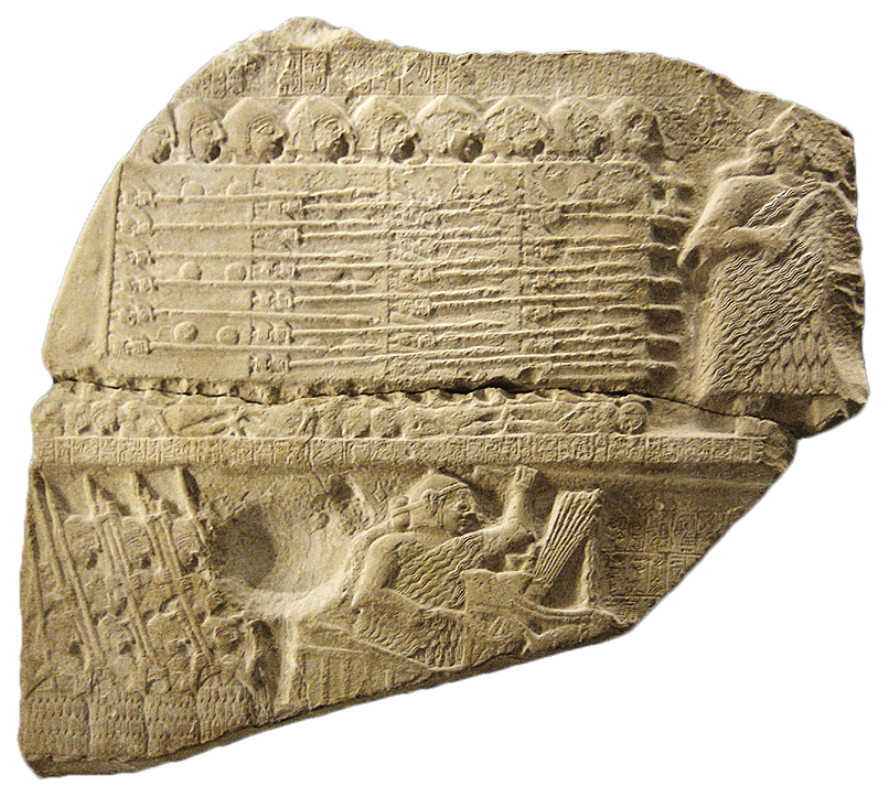 One fragment of the victory stele of the king Eannatum of Lagash over Umma, Sumerian archaic dynasties.